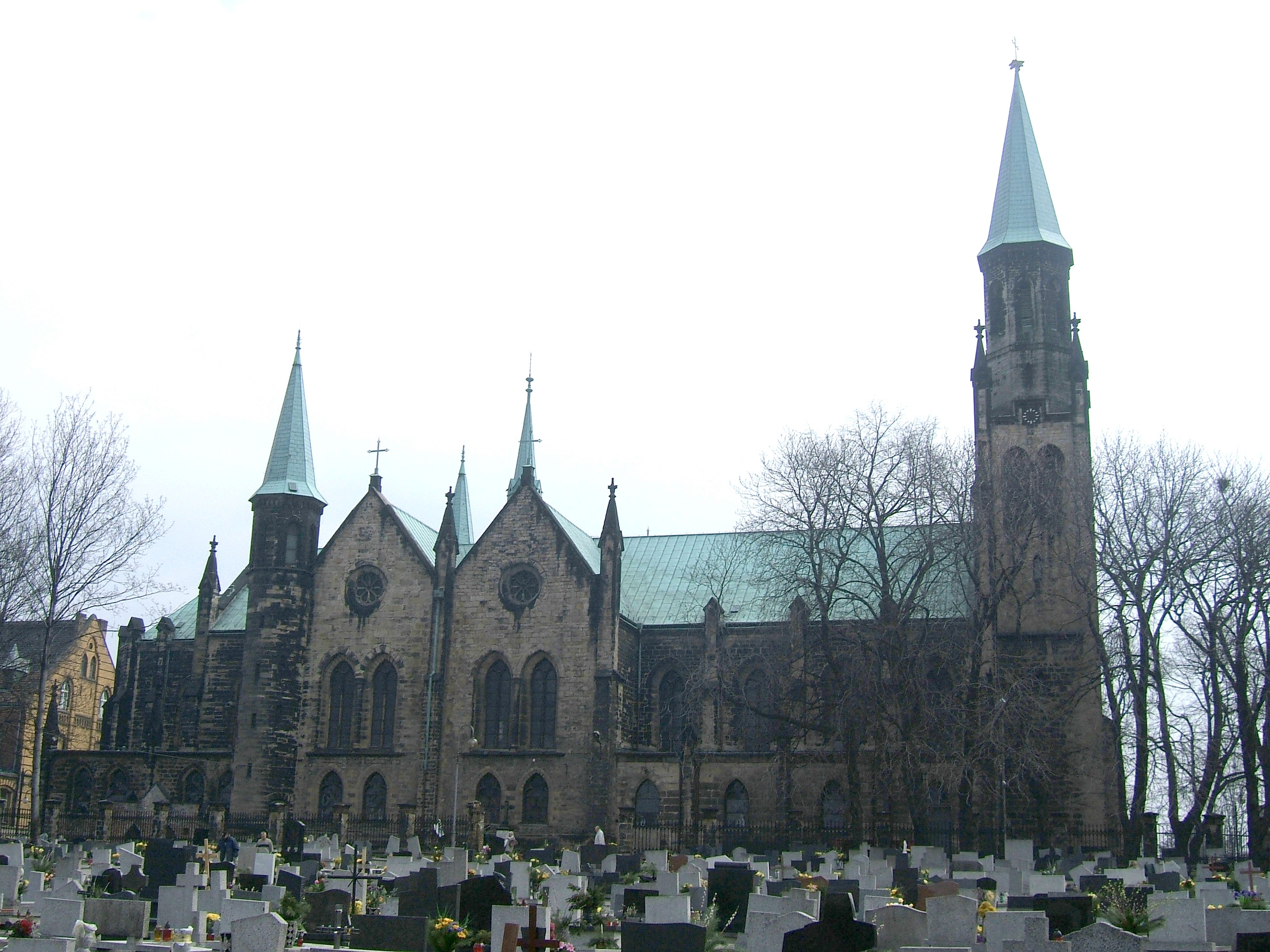 The neogothic church of St. Barbara in Chorzów was errected in 1859 and enlarged from 1876-1877 an from 1894-1896.